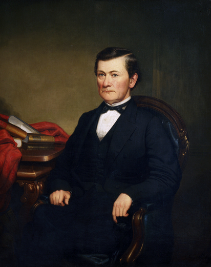 Oil painting of Stephen Miller, 1865 Painter: B. Cooley (1821-1889) Art Collection, Oil 1865 Location no. AV1996.9.5 Negative no. 85121